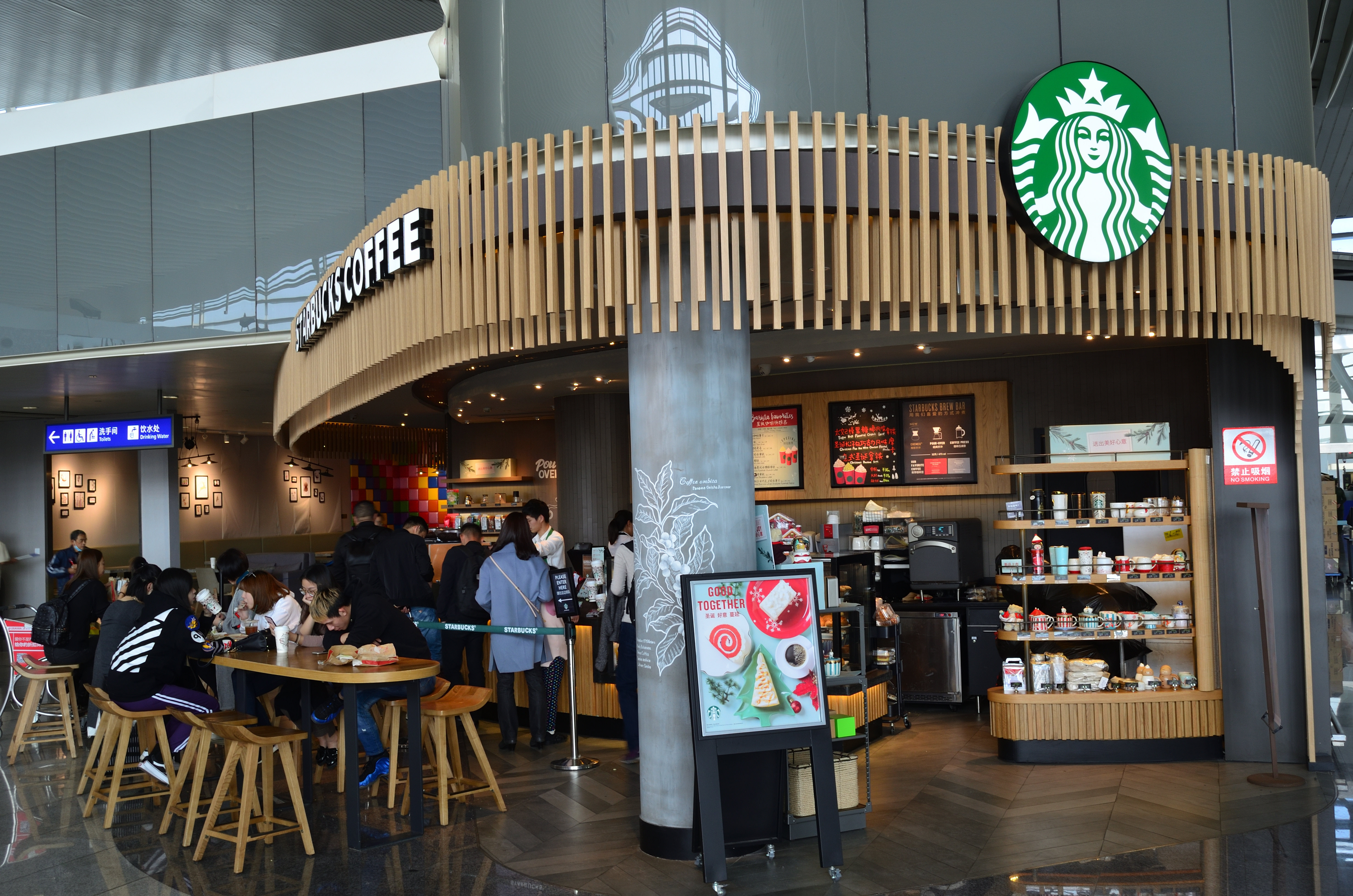 Starbucks at Hangzhou International Airport